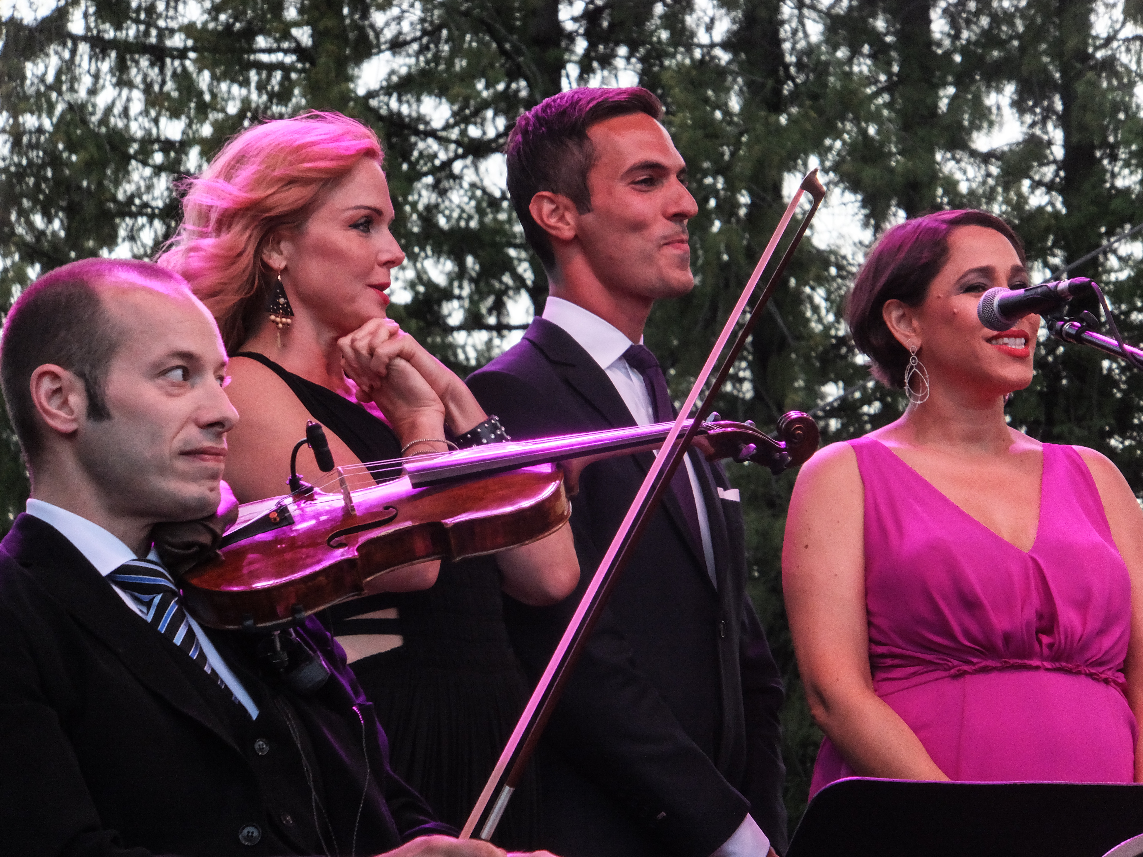 Pink Martini